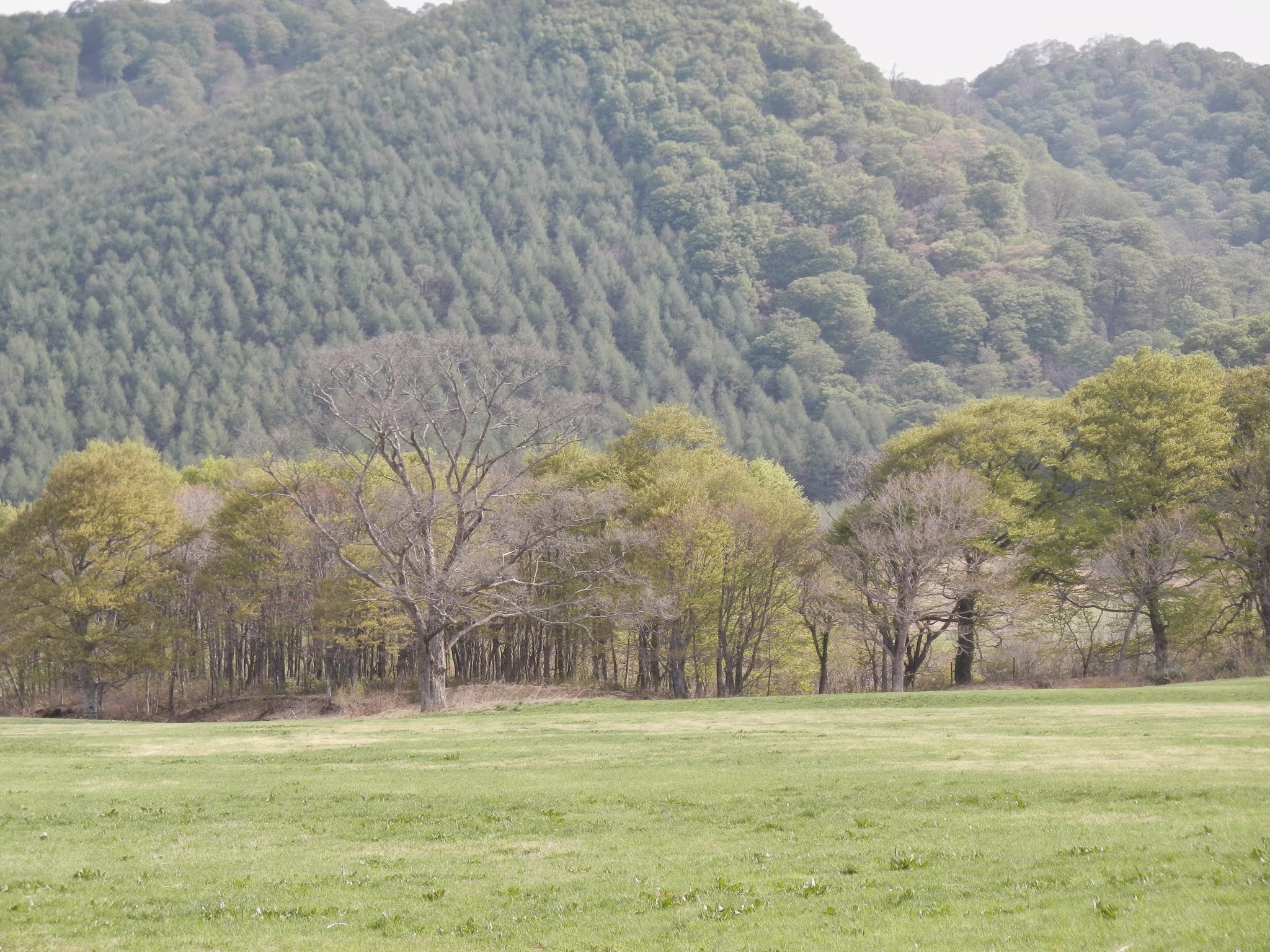 Takko, Sannohe District, Aomori Prefecture 039-0201, Japan